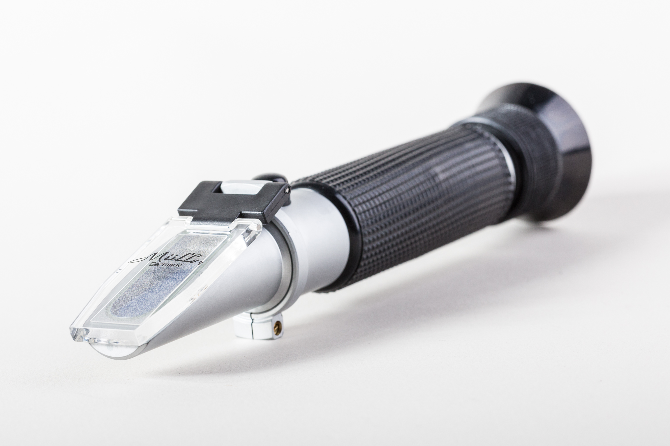 Portable Refractometer